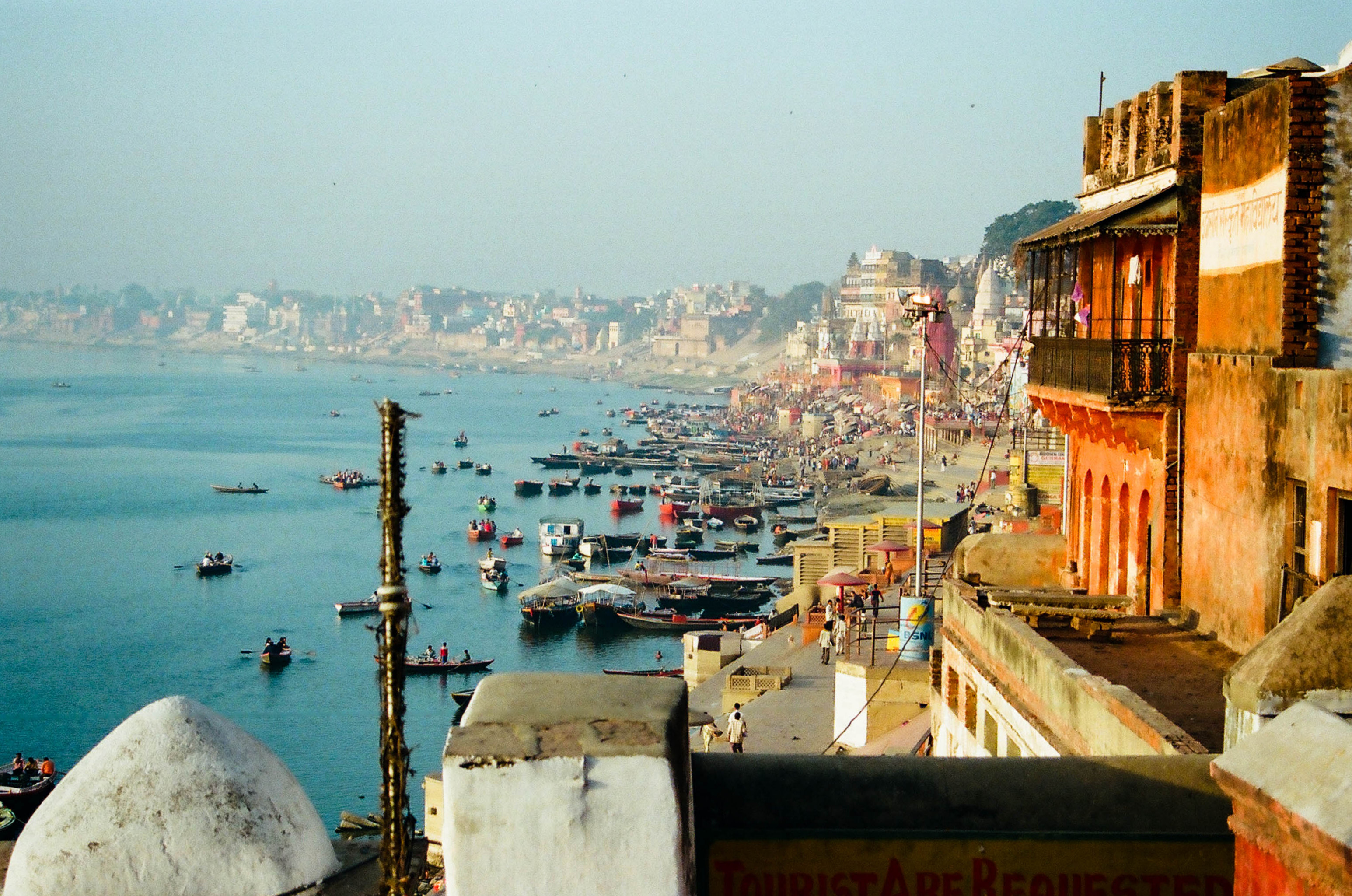 The river bank of the Ganges river.